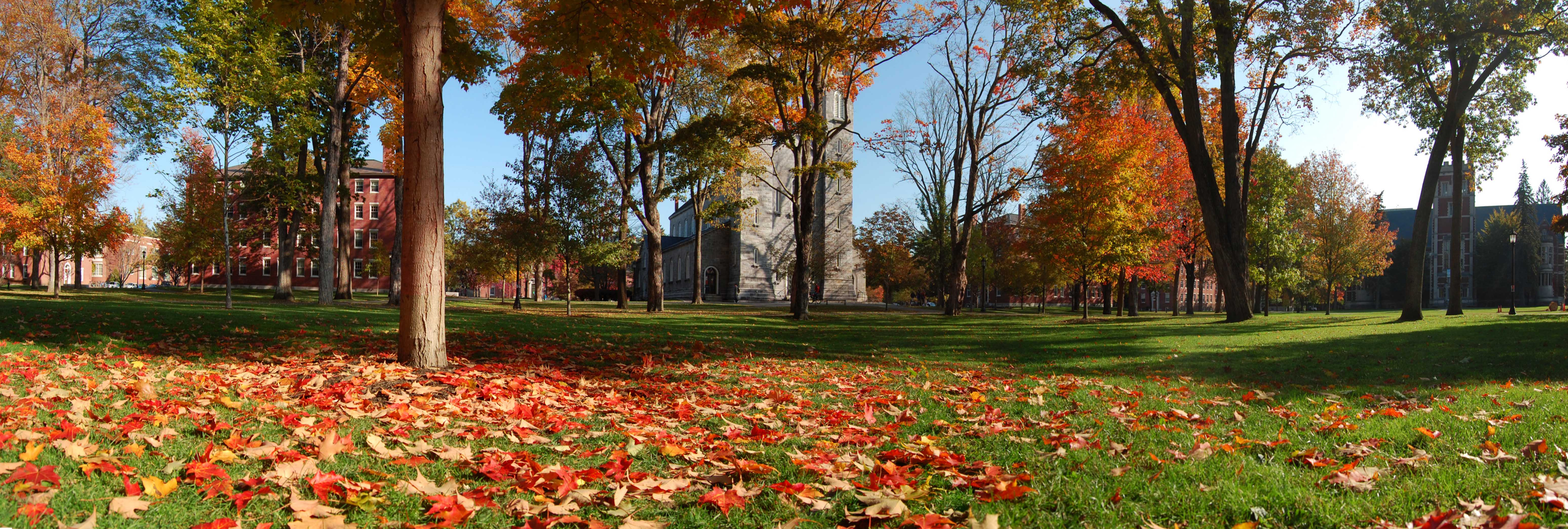 The Quad of Bowdoin College in the Fall